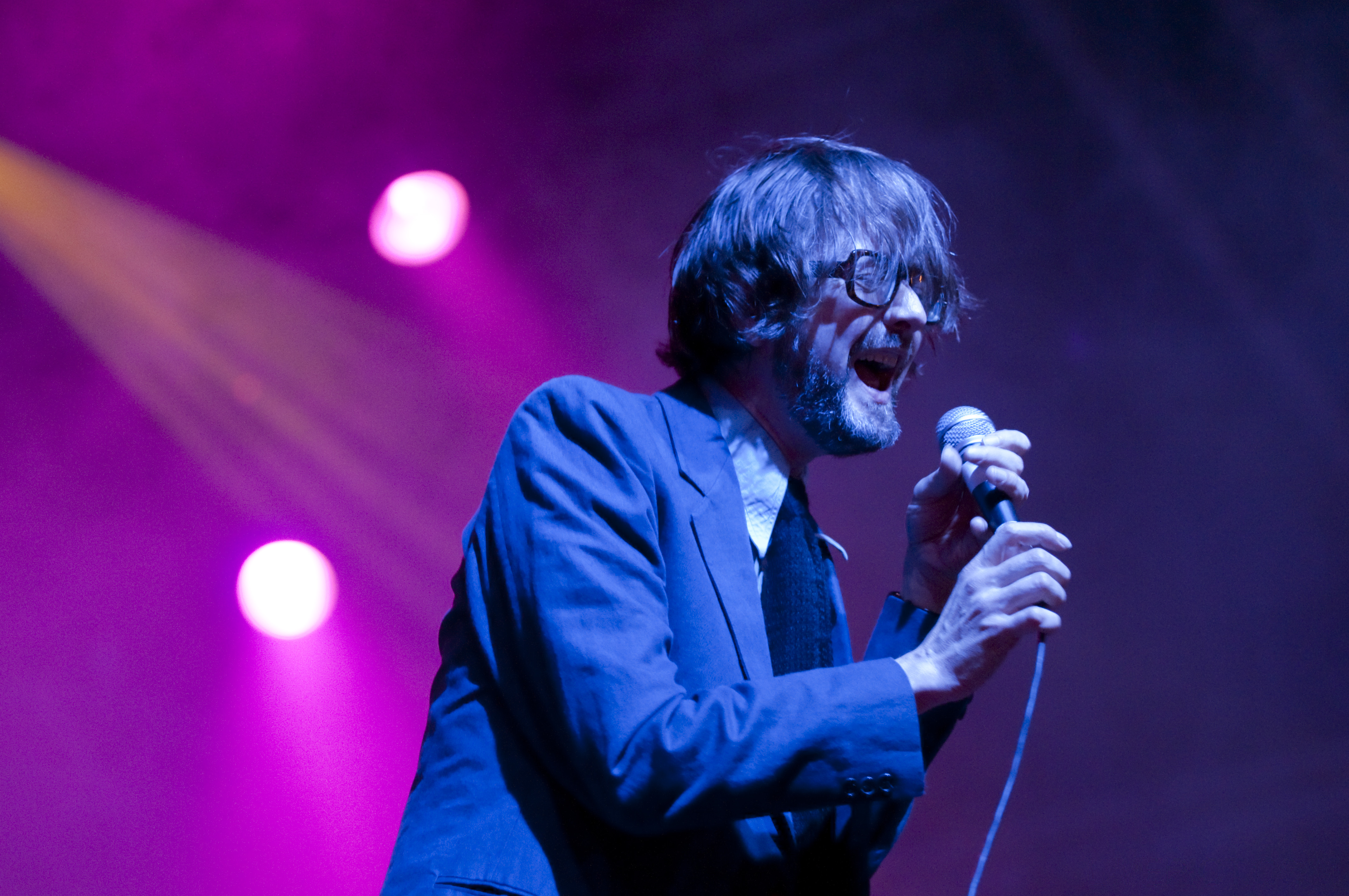 Jarvis Cocker